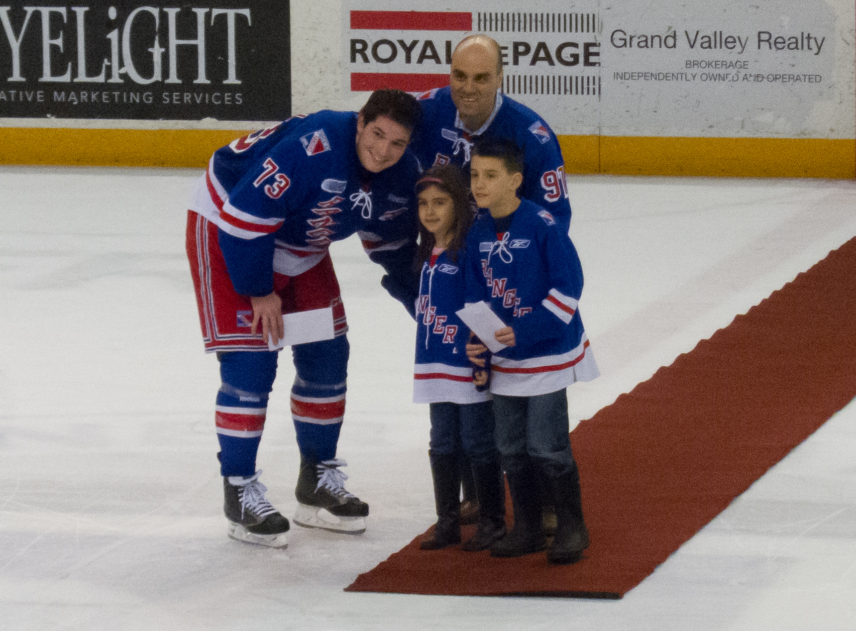 Matthew Puempel of the Kitchener Rangers (far left) being named one of the three Stars of the game after a match against the Plymouth Whalers